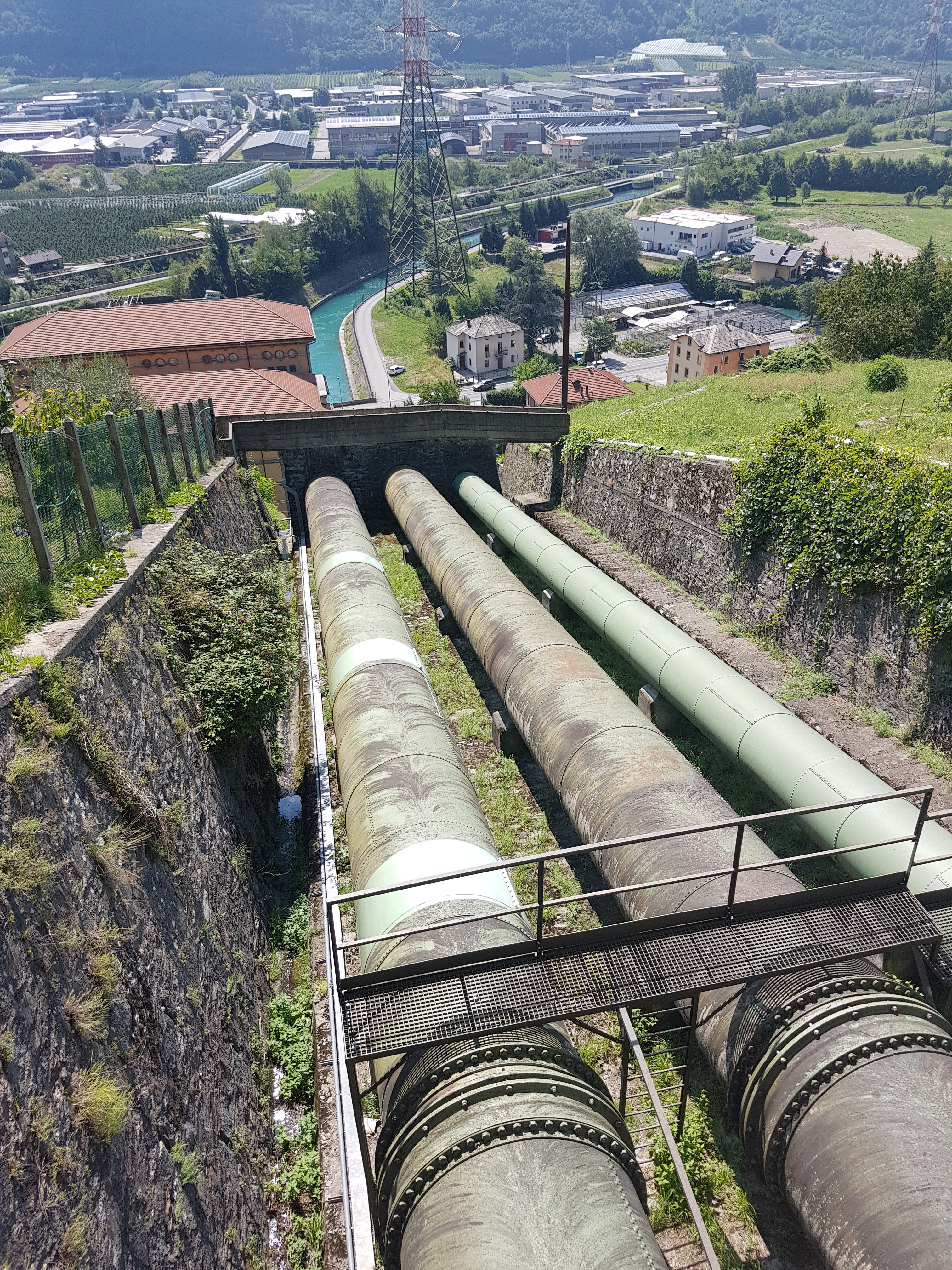 Hydroelectric power station “Stazzona“ in Villa di Tirano, Sondrio, Lombardy, Italy.